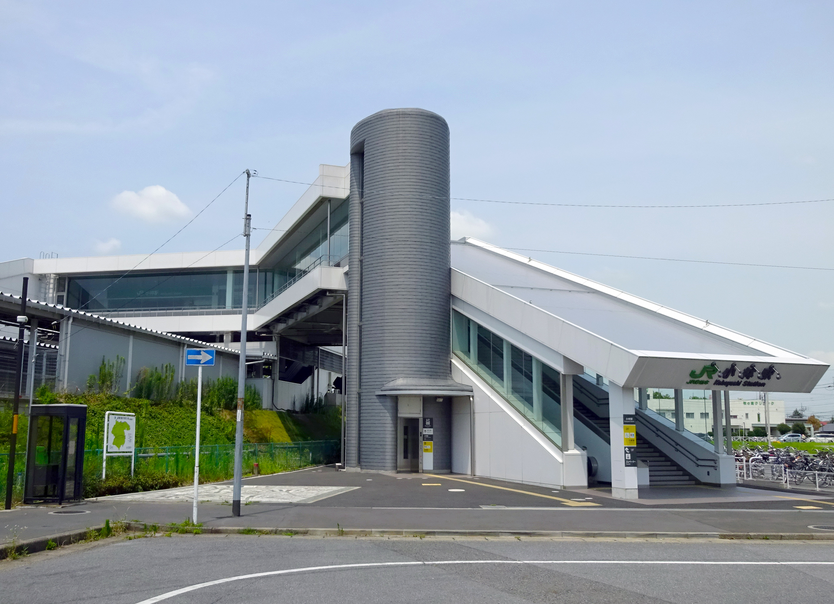 North entrance of Kobayashi Station (Chiba)